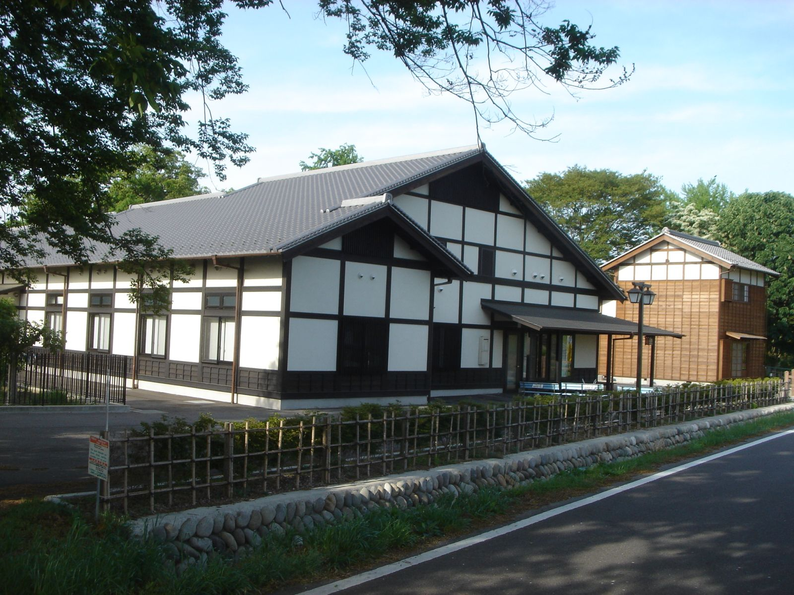 Ootajuku Nakasendo Hall